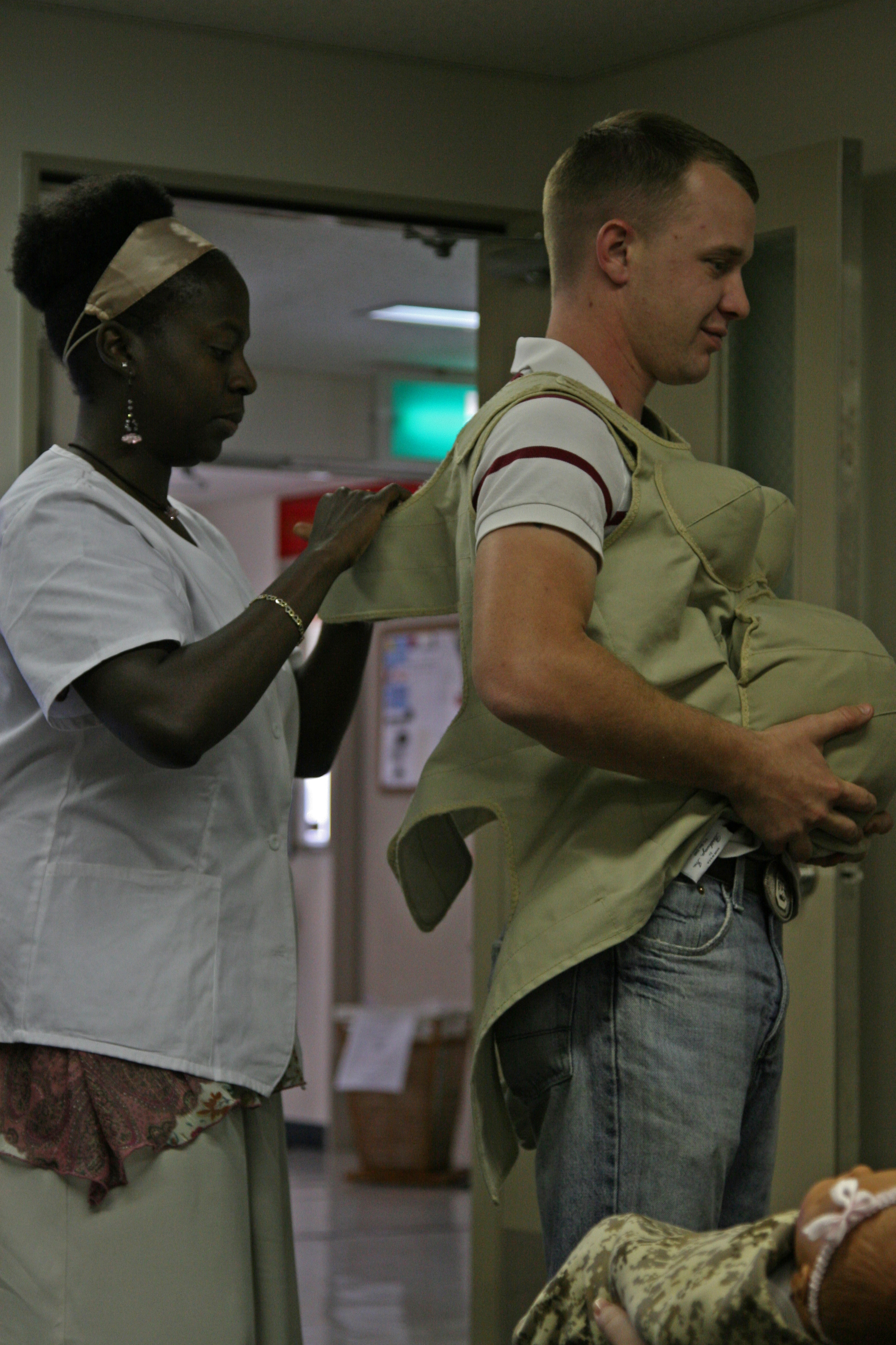 Rafiah MeeKins, a home visitor for the New Parent Support Program, dresses a soon-to-be daddy in the empathy belly during a Baby Boot Camp class Friday. Baby Boot Camp is an all-day workshop on the basics of newborn care.